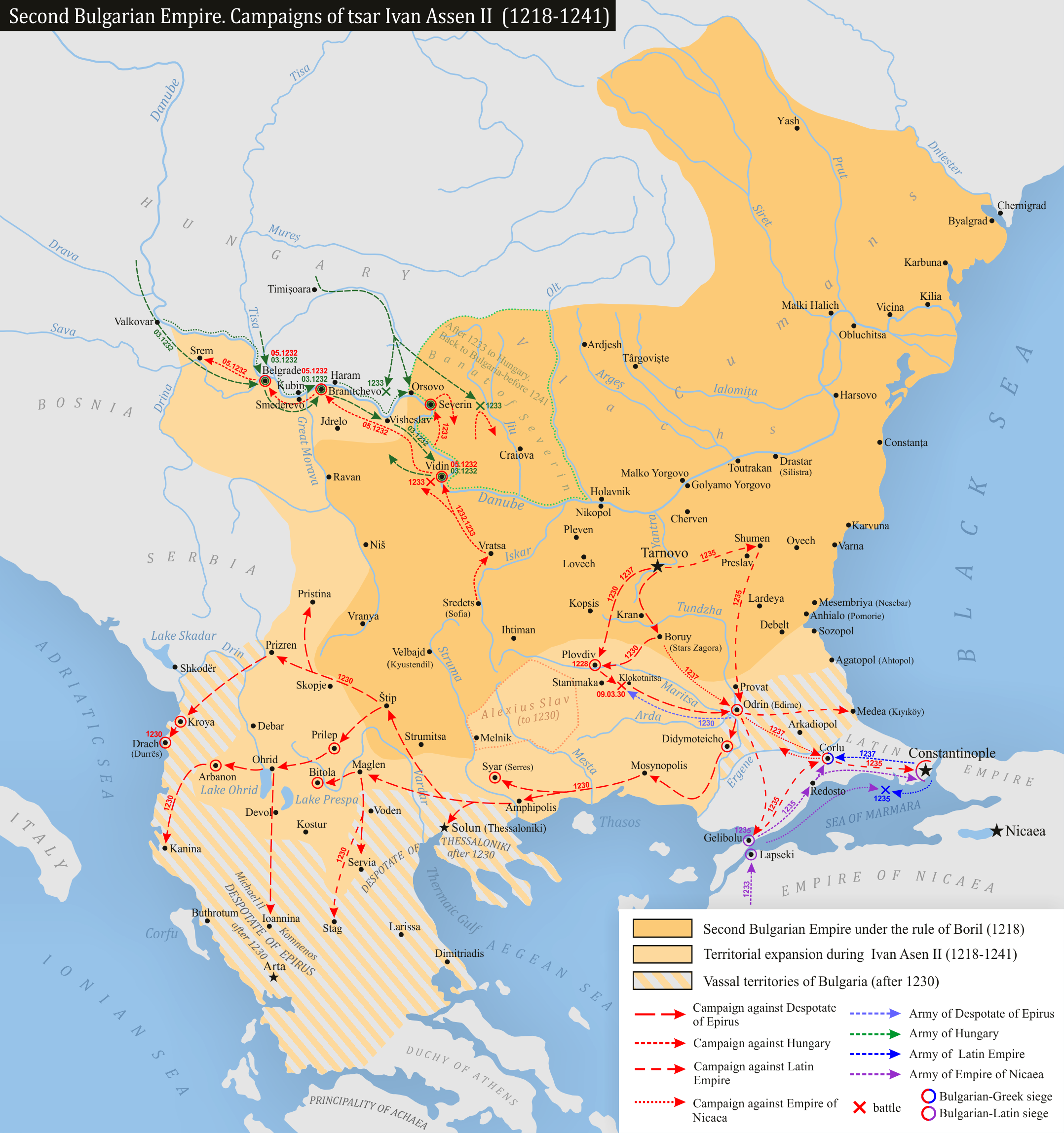 Second Bulgarian Empire. Campaigns of tsar Ivan Assen II.